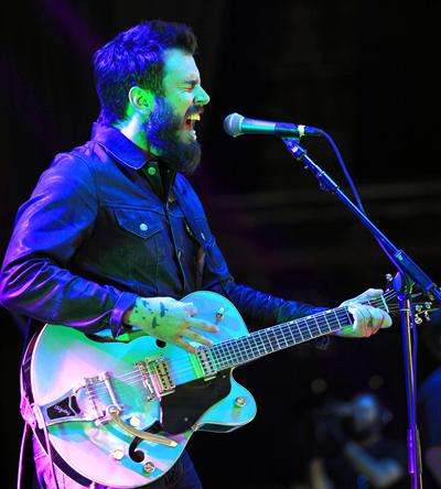 Photograph of Justin Jones performing at Virgin Mobile FreeFest, October 6, 2012